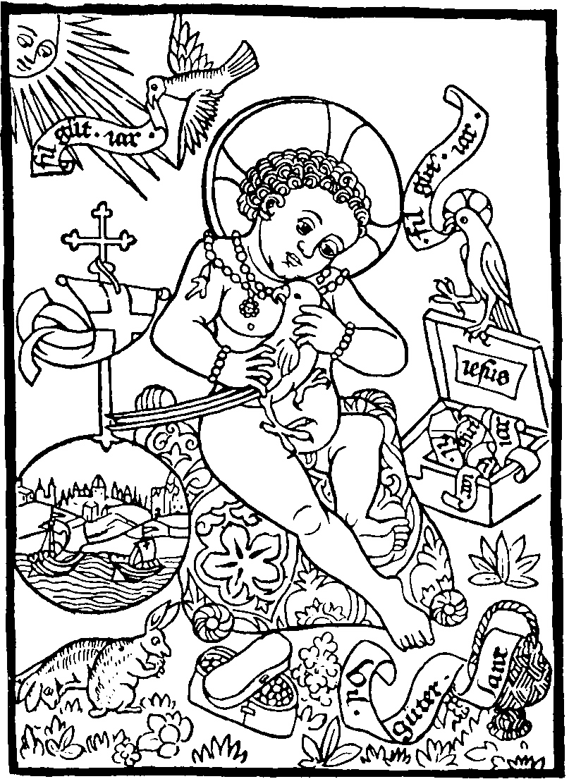 Engraving from around 1470 of a New Year's greeting. The captions read (in German): fil gut iar. fil gut iar. iesus fil gut iar. Vil güter Jaur "Very Good Year!"